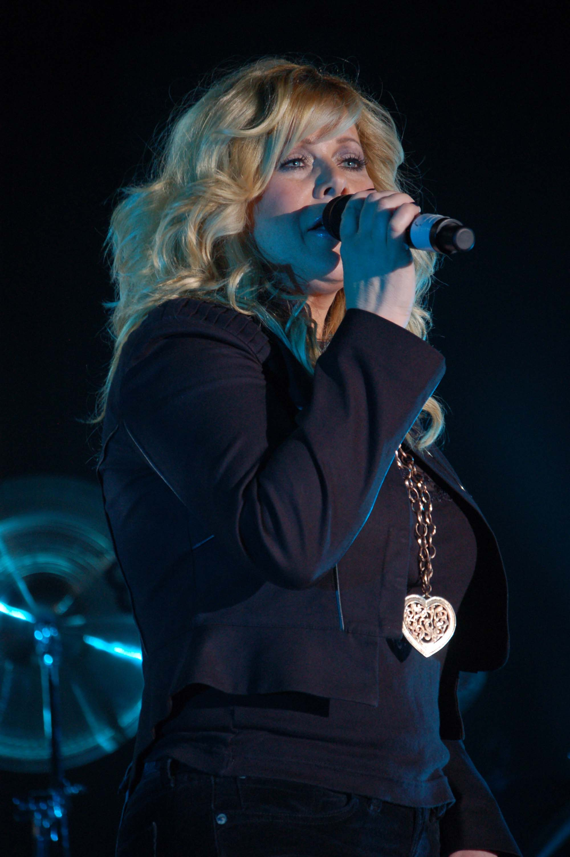 Country music star Jamie O'Neal performing for U.S. airmen and their families at Incirlik Air Base, Turkey, as part of Operation Season's Greetings, an Air Force Reserve Command-sponsored tour designed to bring some down home entertainment and holiday cheer to Airmen overseas.